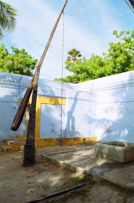 Ancient well at a temple near Tiruchendur, Tamil Nadu, India Photograph taken in December 2004 Author: Amar